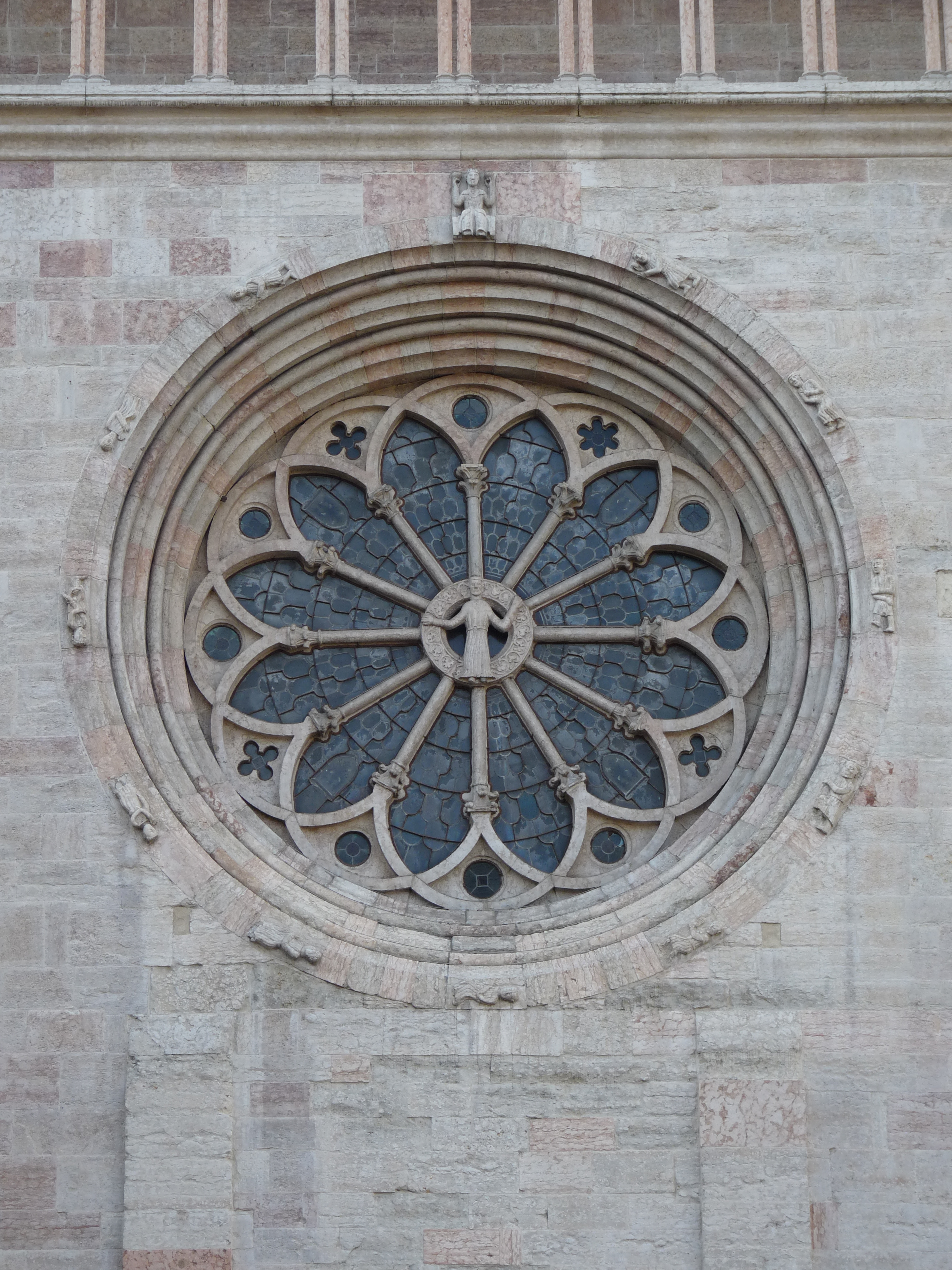 Trento (Italy): rose window of the northern transept of the cathedral of Saint Vigilius, representing the Wheel of Fortune.